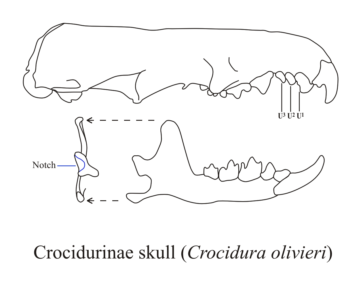 Skull of Crocidura olivieri, according to Happold & Happold, 2013